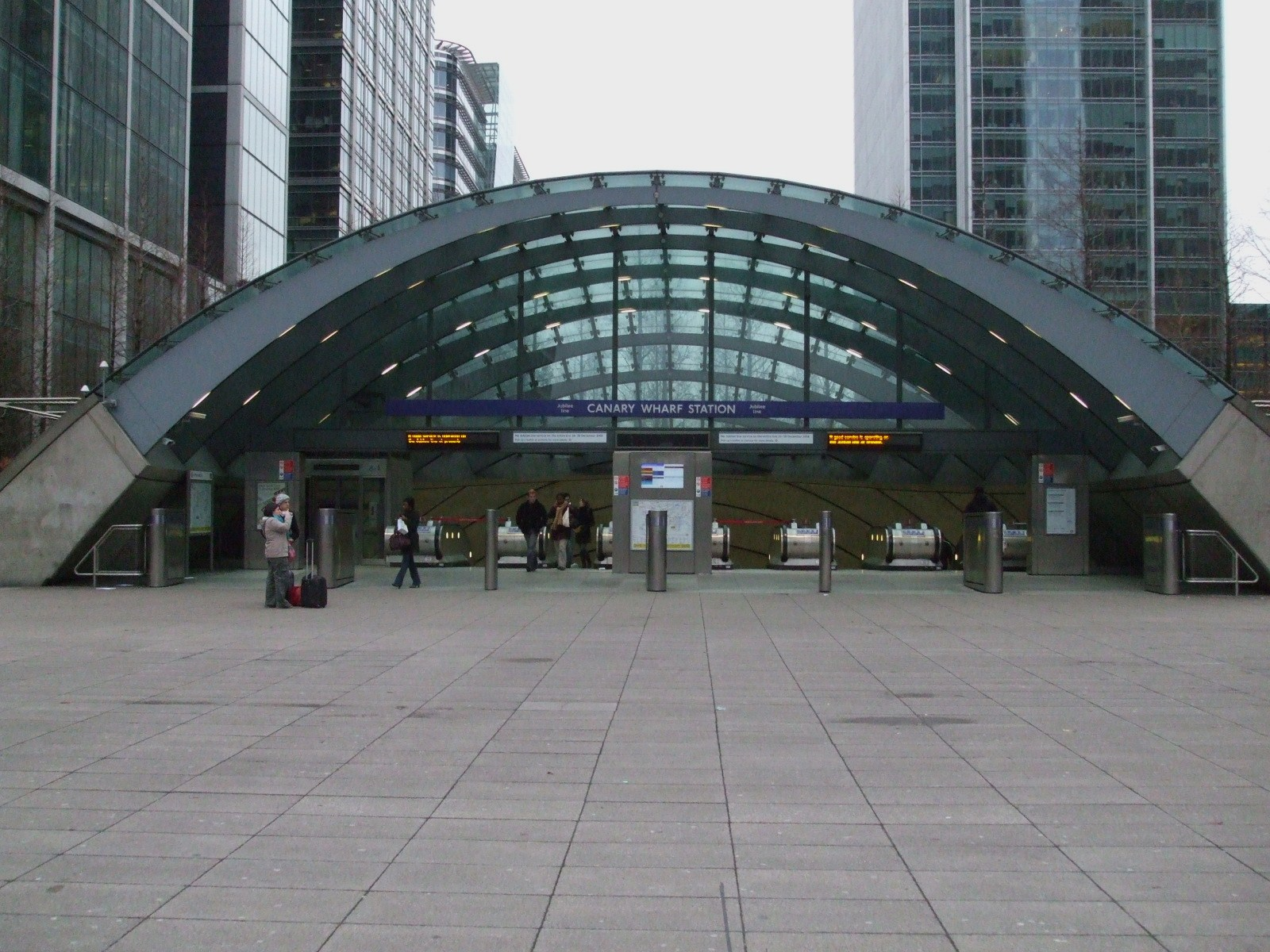 Canary Wharf tube station entrance. Some distance from its namesake on the DLR, and "officially" closer to Heron Quays station.